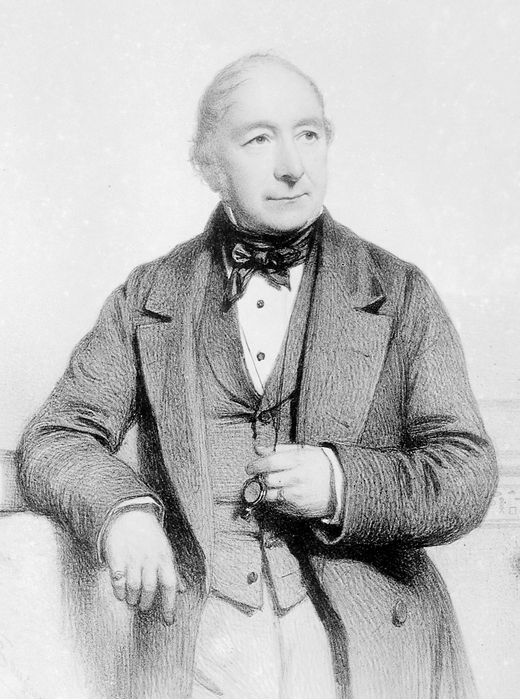 Portrait of Thomas Joseph Pettigrew (1791–1865), sometimes known as "Mummy" Pettigrew, English surgeon and antiquarian and an expert on Ancient Egyptian mummies.